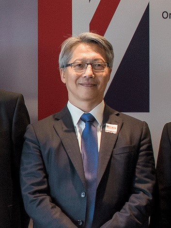 James C. Liao, President of the Academia Sinica.